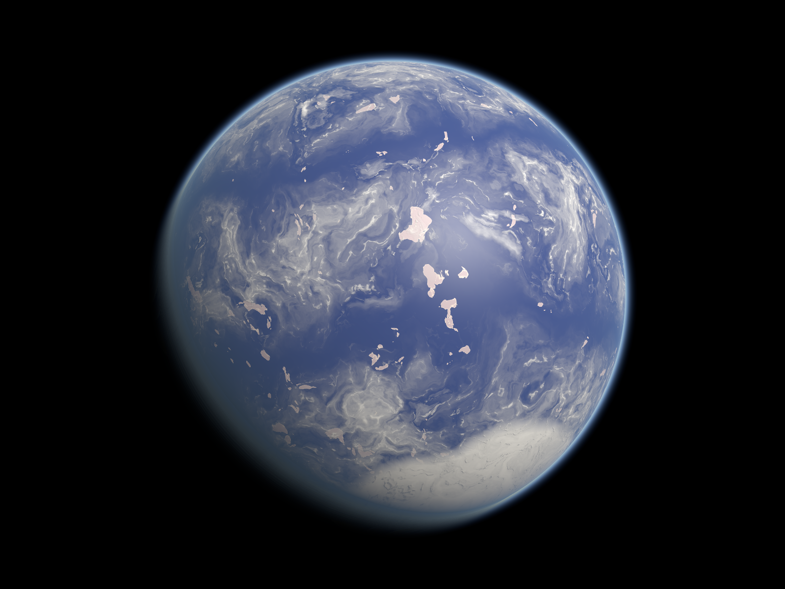 Artist impression of wet habitable planet. Vast ocean cover almost whole planet. There are islands like at Pacific Ocean and caps of sea and island ice at poles of planet.